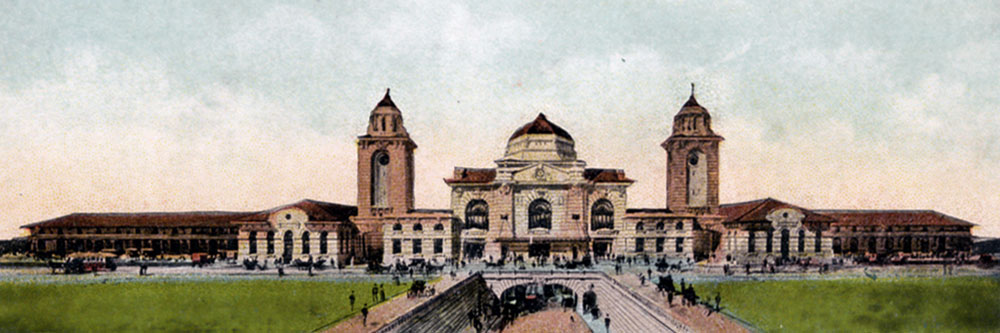 Birmingham Terminal Station, a now-destroyed railroad terminal in Birmingham, Alabama, United States.